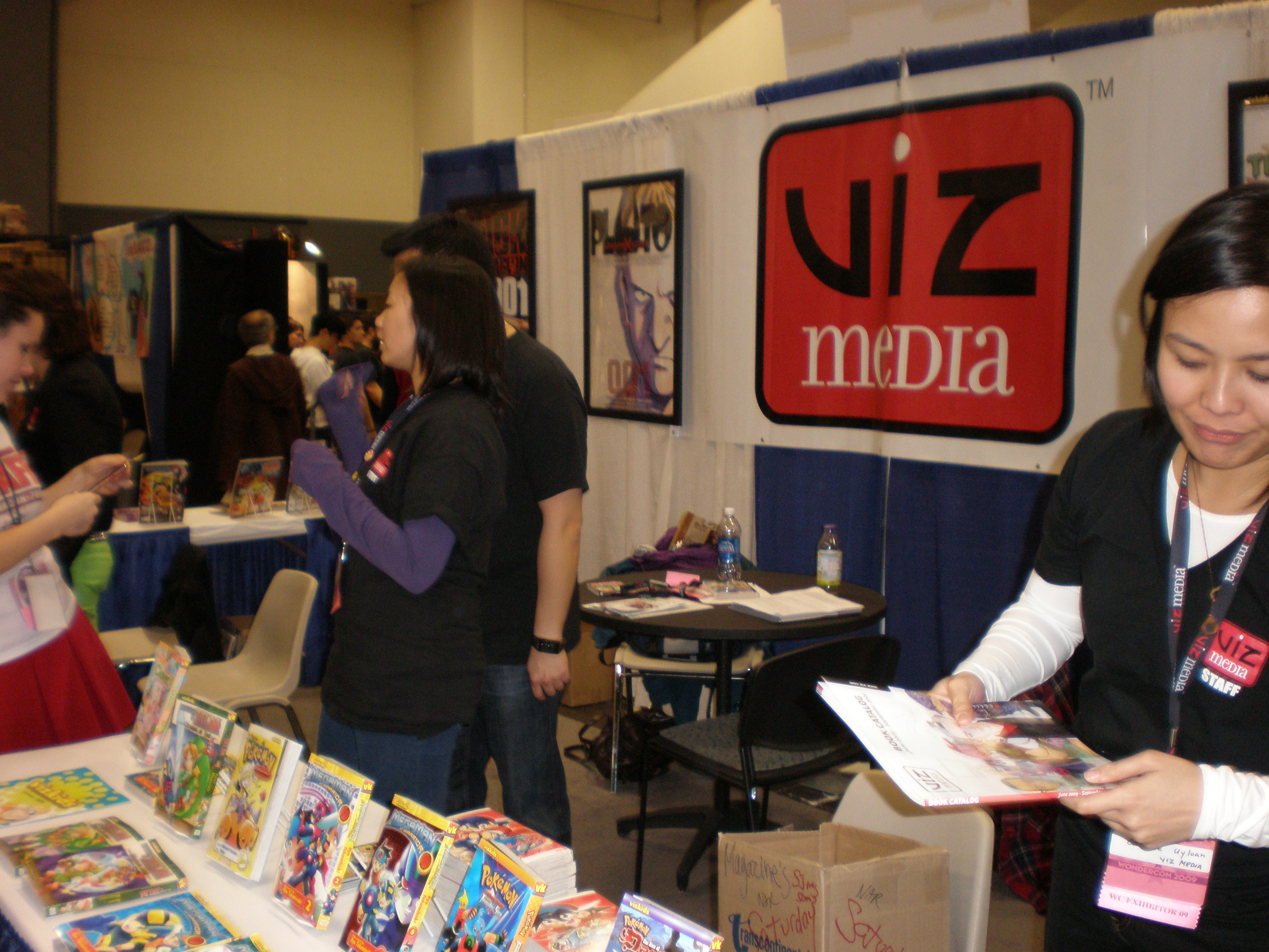 The Viz Media table at WonderCon 2009.